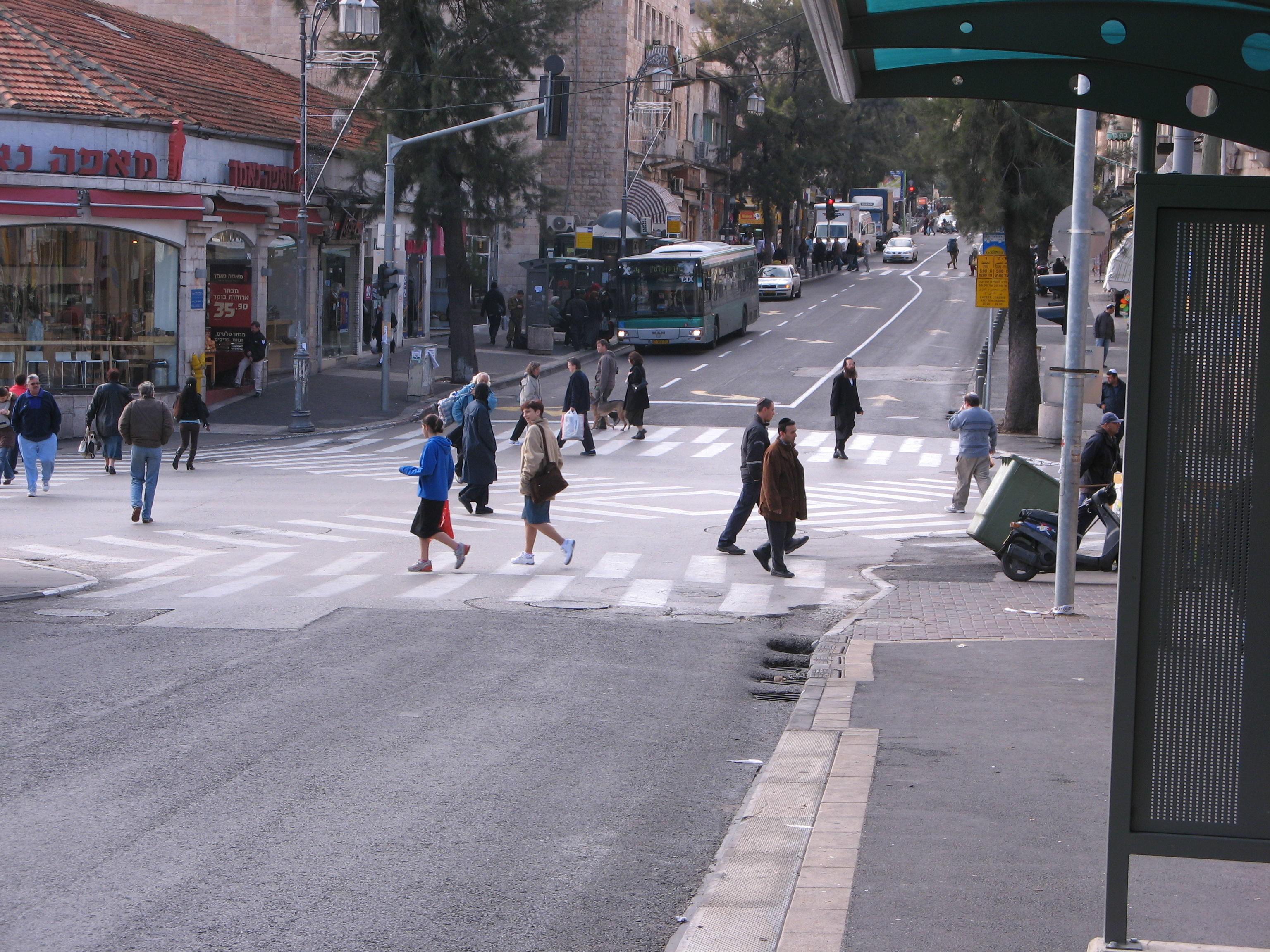 Iksim Junction in central Jerusalem while people are crossing